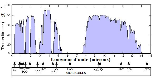 Plot of Earth atmosphere transmittance in the infrared region of the electromagnetic spectrum in French translation.